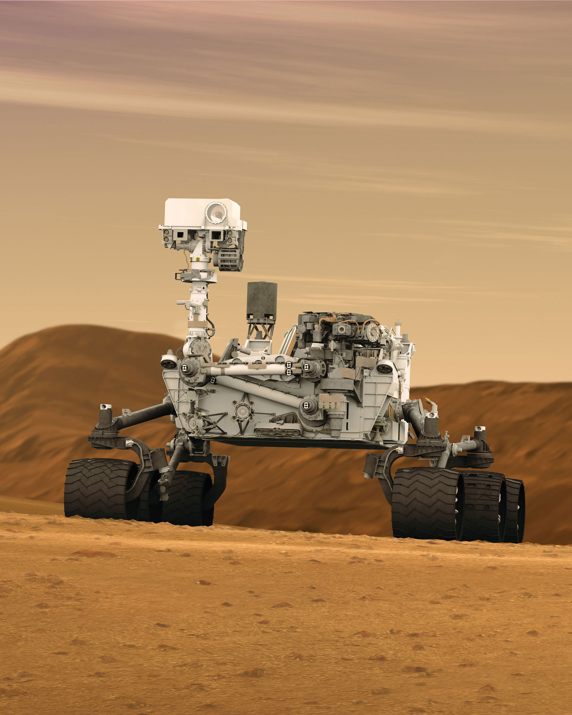 Mars Rover Curiosity in Artist's Concept, Tall This artist concept features NASA's Mars Science Laboratory Curiosity rover, a mobile robot for investigating Mars' past or present ability to sustain microbial life. Curiosity is being tested in preparation for launch in the fall of 2011. In this picture, the mast, or rover's "head," rises to about 2.1 meters (6.9 feet) above ground level, about as tall as a basketball player. This mast supports two remote-sensing instruments: the Mast Camera, or "eyes," for stereo color viewing of surrounding terrain and material collected by the arm; and, the ChemCam instrument, which is a laser that vaporizes material from rocks up to about 9 meters (30 feet) away and determines what elements the rocks are made of. NASA's Jet Propulsion Laboratory, a division of the California Institute of Technology, Pasadena, manages the Mars Science Laboratory Project for the NASA Science Mission Directorate, Washington.